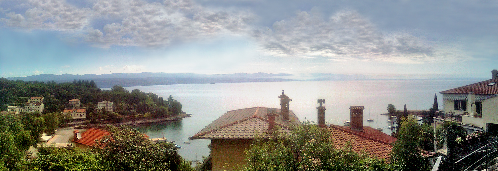 The panorama from Ika, Croatia.